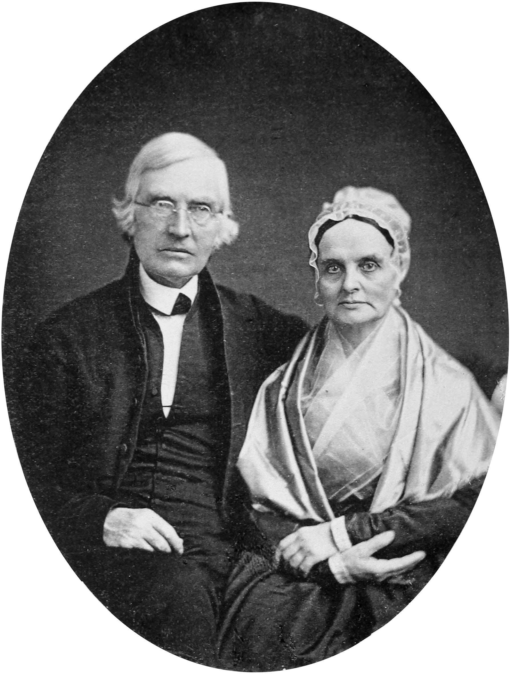 Daguerreotype portrait of Lucretia and James Mott sitting together, original photograph by William Langenheim, 1842.